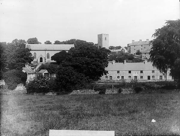 1 negative : glass, dry plate, b&w ; 16.5 x 21.5 cm.